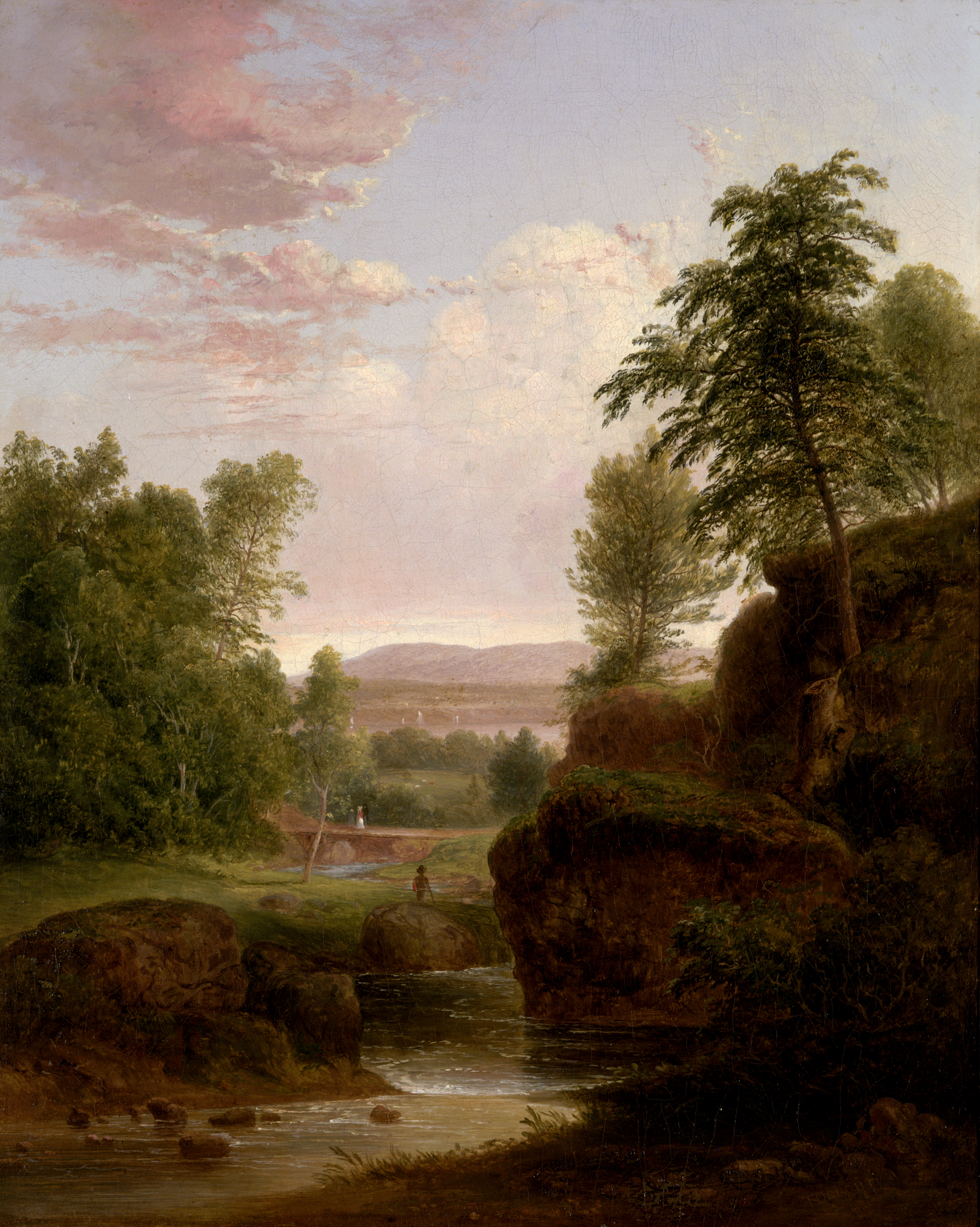 Thomas Doughty, American, 1793–1856 View toward the Hudson River, ca. 1839 Oil on canvas 54 x 44 cm. (21 1/4 x 17 5/16 in.) frame: 73 × 63 × 6 cm (28 3/4 × 24 13/16 × 2 3/8 in.) Gift of Mrs. Heermance in memory of Dean Radcliffe Heermance y1969-93